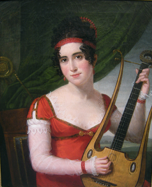 Painting of a woman playing the lyre, workshop of Robert Lefèvre. Circa 1810. Unsigned, oil on canvas. 60 x 74 cm.